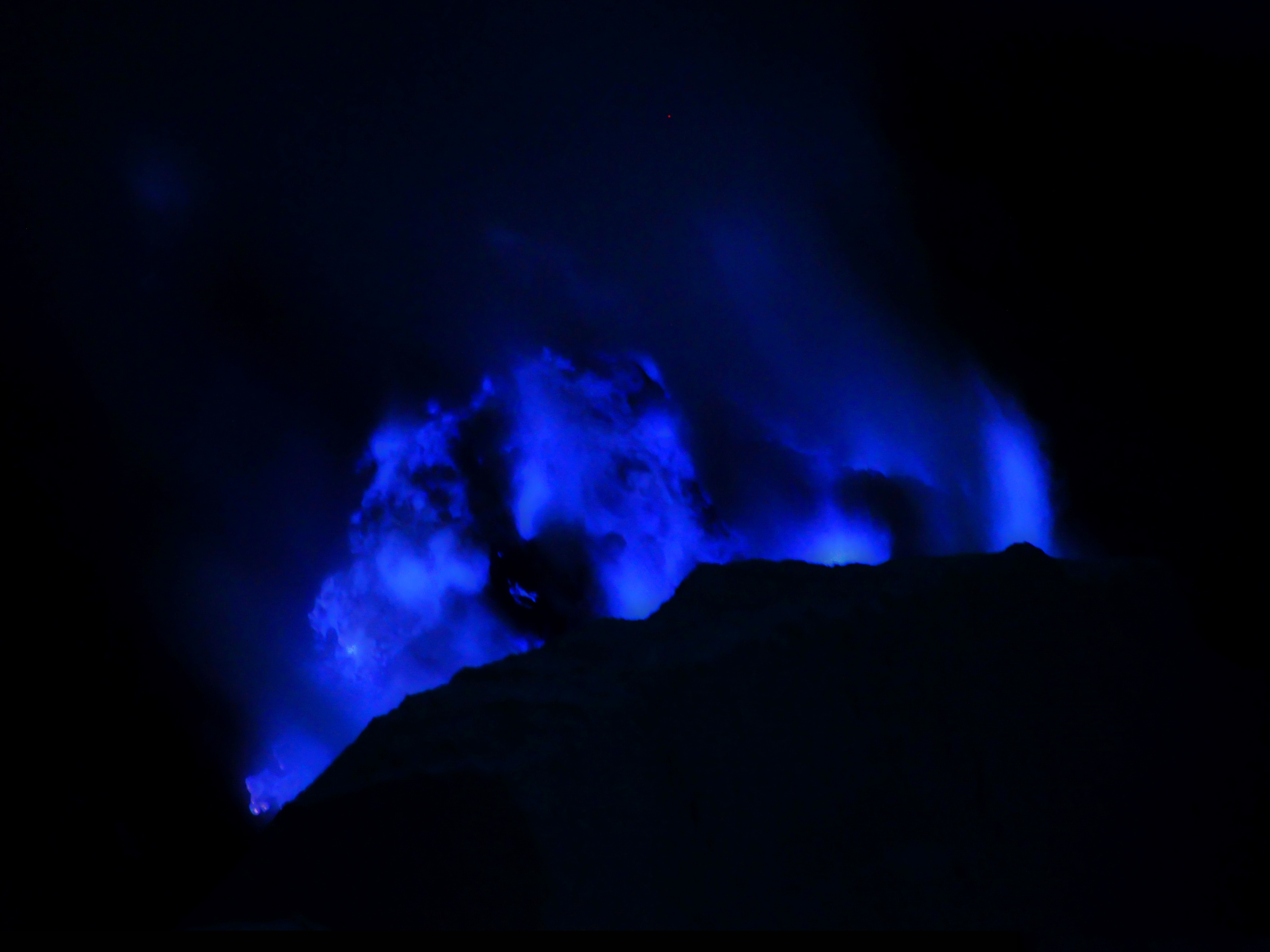 The blue sulfur flames in the Ijen Caldera.